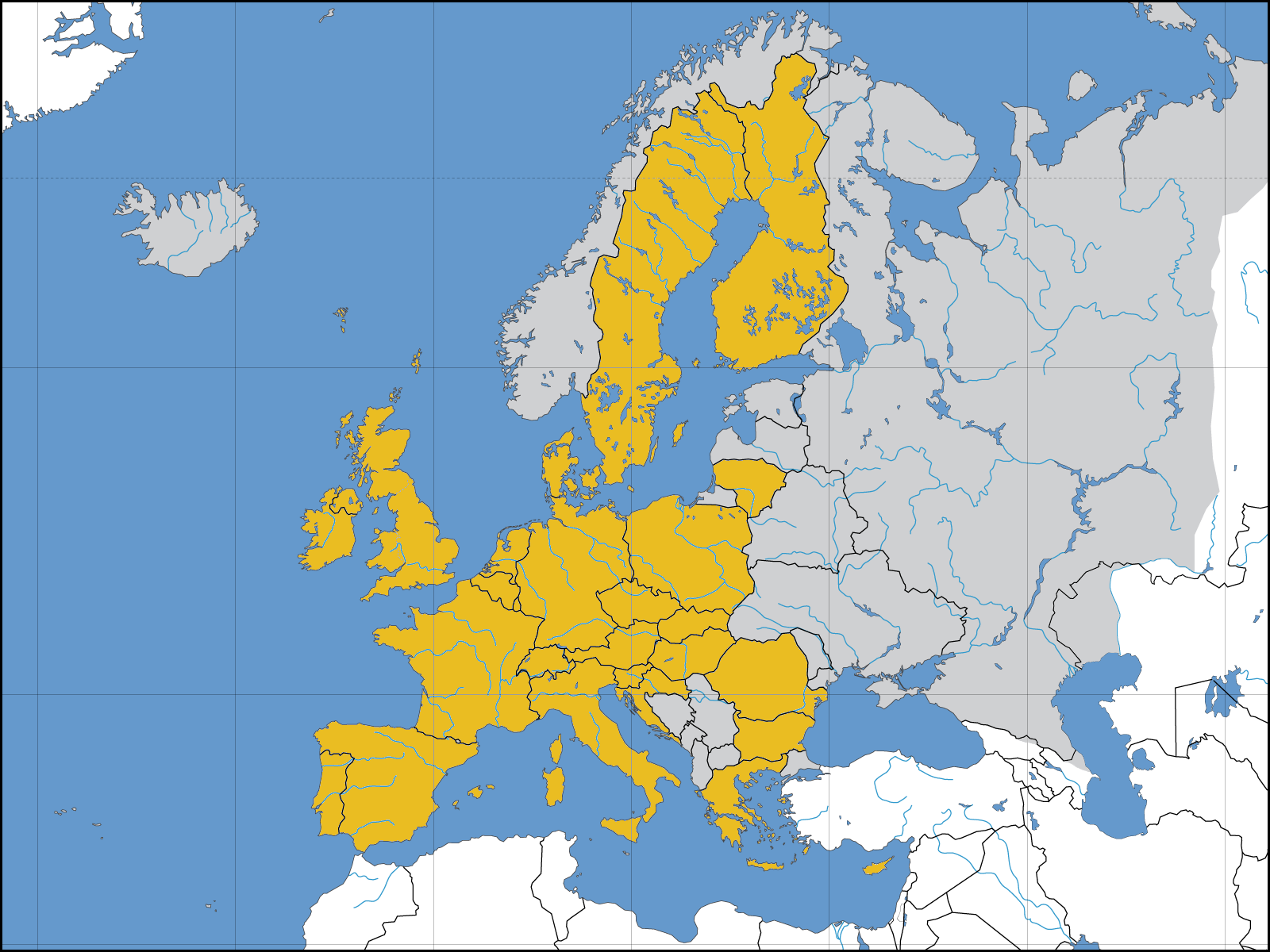 The countries where Lidl is active (as of November 2010)